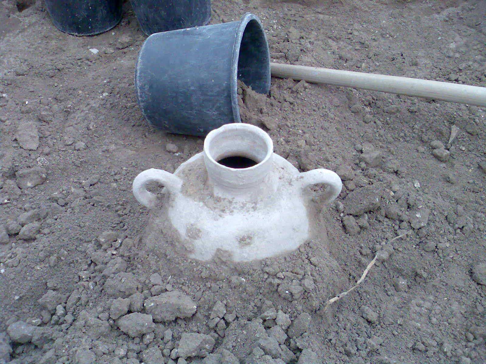 Abbasid Jug, Found in Situ, archaeology site excavation, Jerusalem Israel